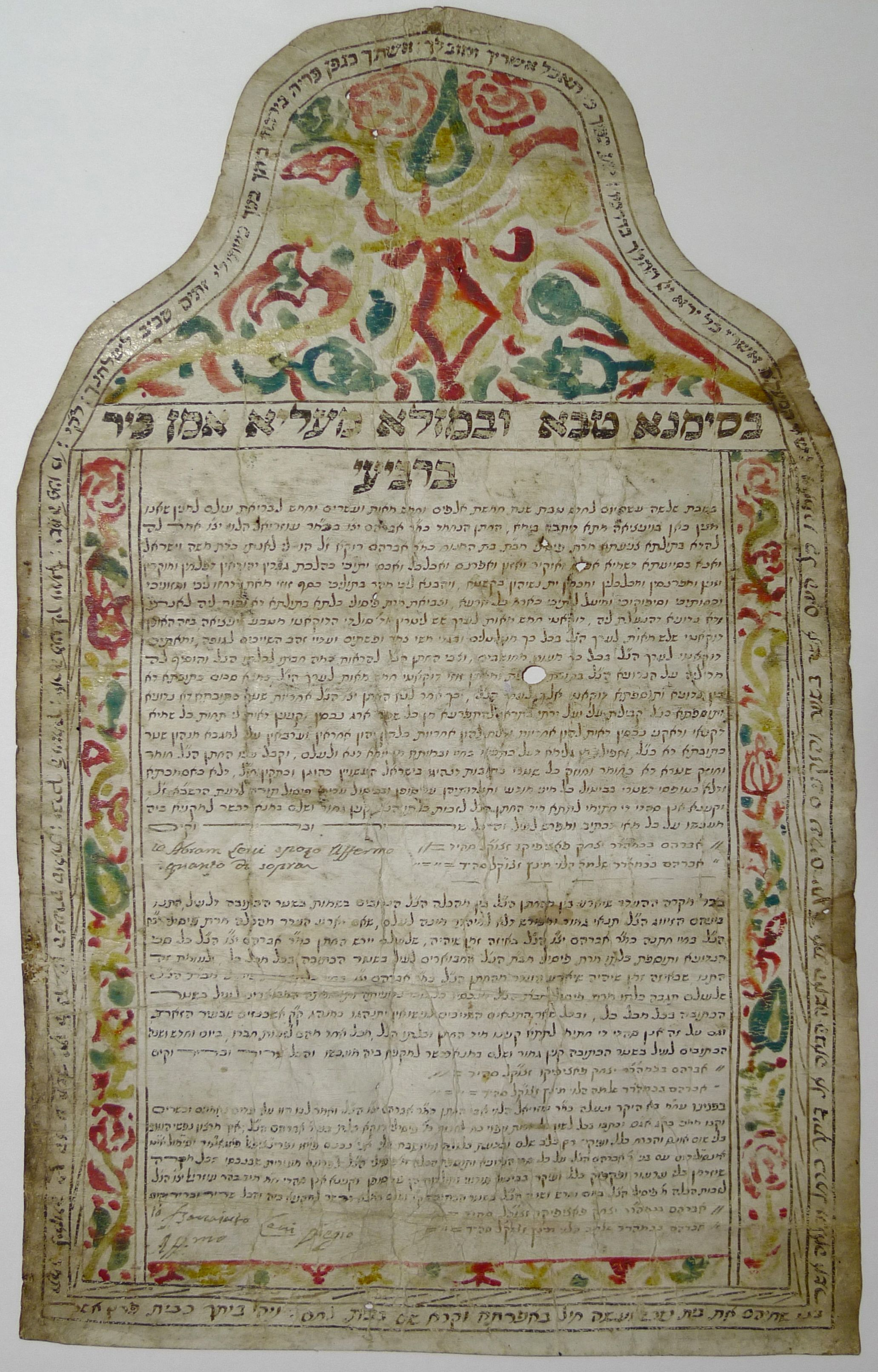 Marriage contract from Venice, 1765, Jewish Museum of Switzerland